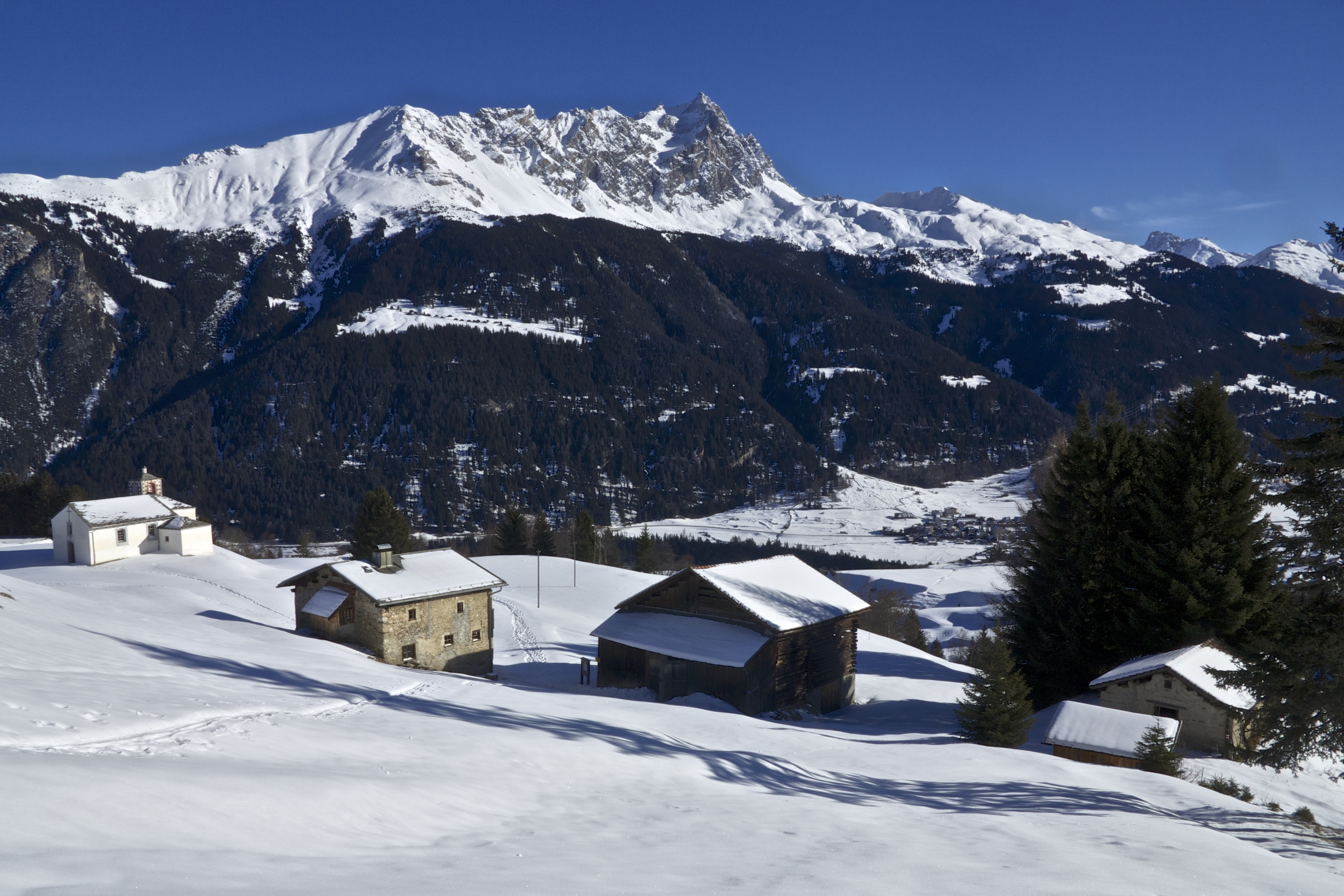 Salaschigns with Piz Mitgel as seen from West, Riom-Parsonz, Salouf, Grisons, SwitzerlandRumantsch: Salaschigns, piglia se digl vest, Piz Mitgel davos ve, Riom-Parsonz, Salouf, Grischun, Svizra